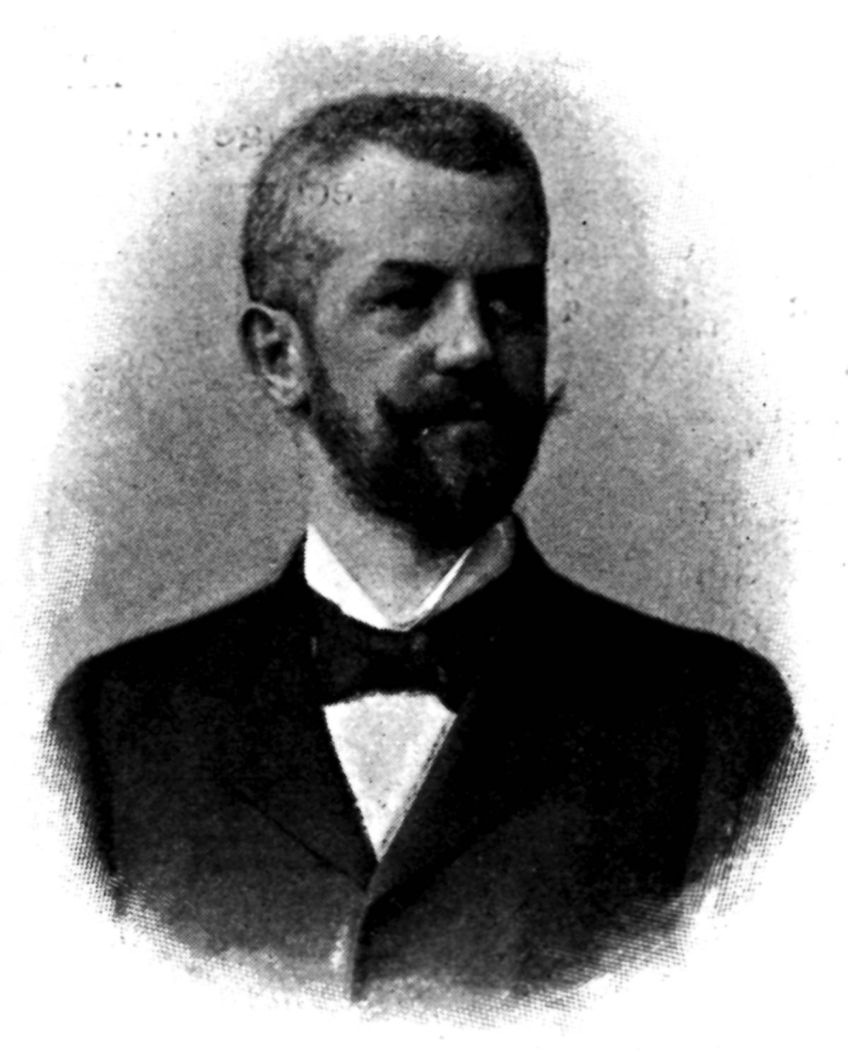 Anton von Eiselsberg